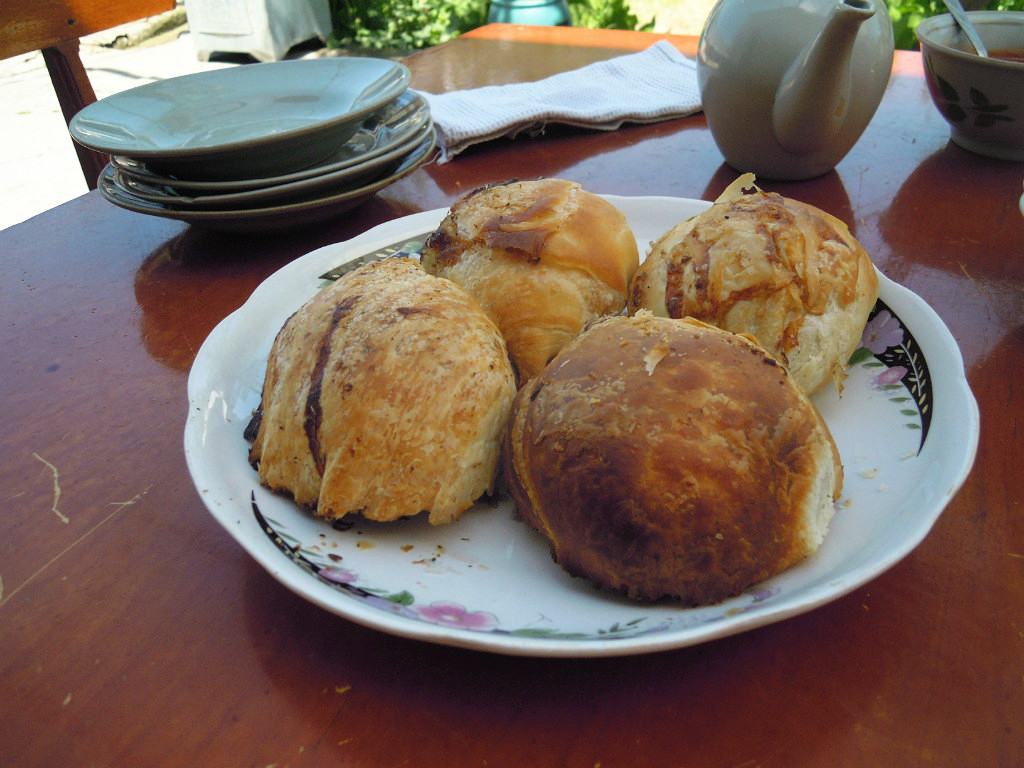 Samarkandian tandyr-samsa